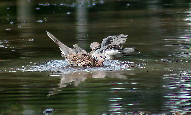 Spotted Dove Streptopelia chinensis in Kolkata, West Bengal, India.